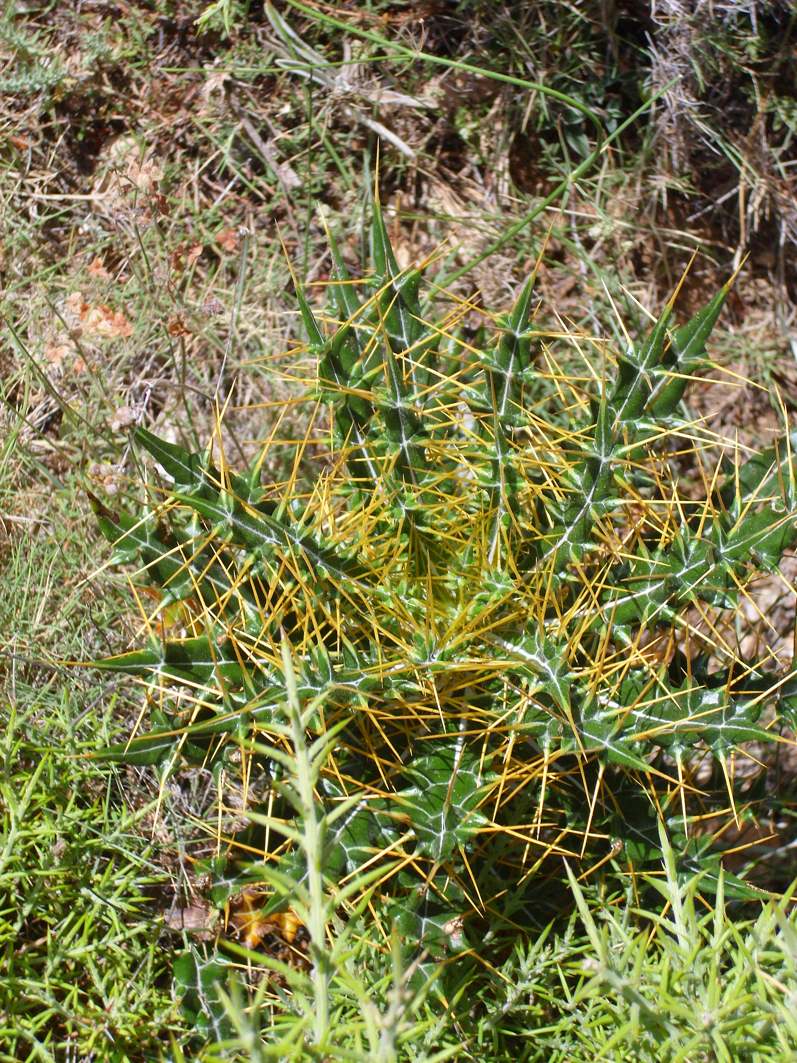 Ptilostemon hispanicus habit, in Sierra de Alfacar y Víznar, Granada, Spain.